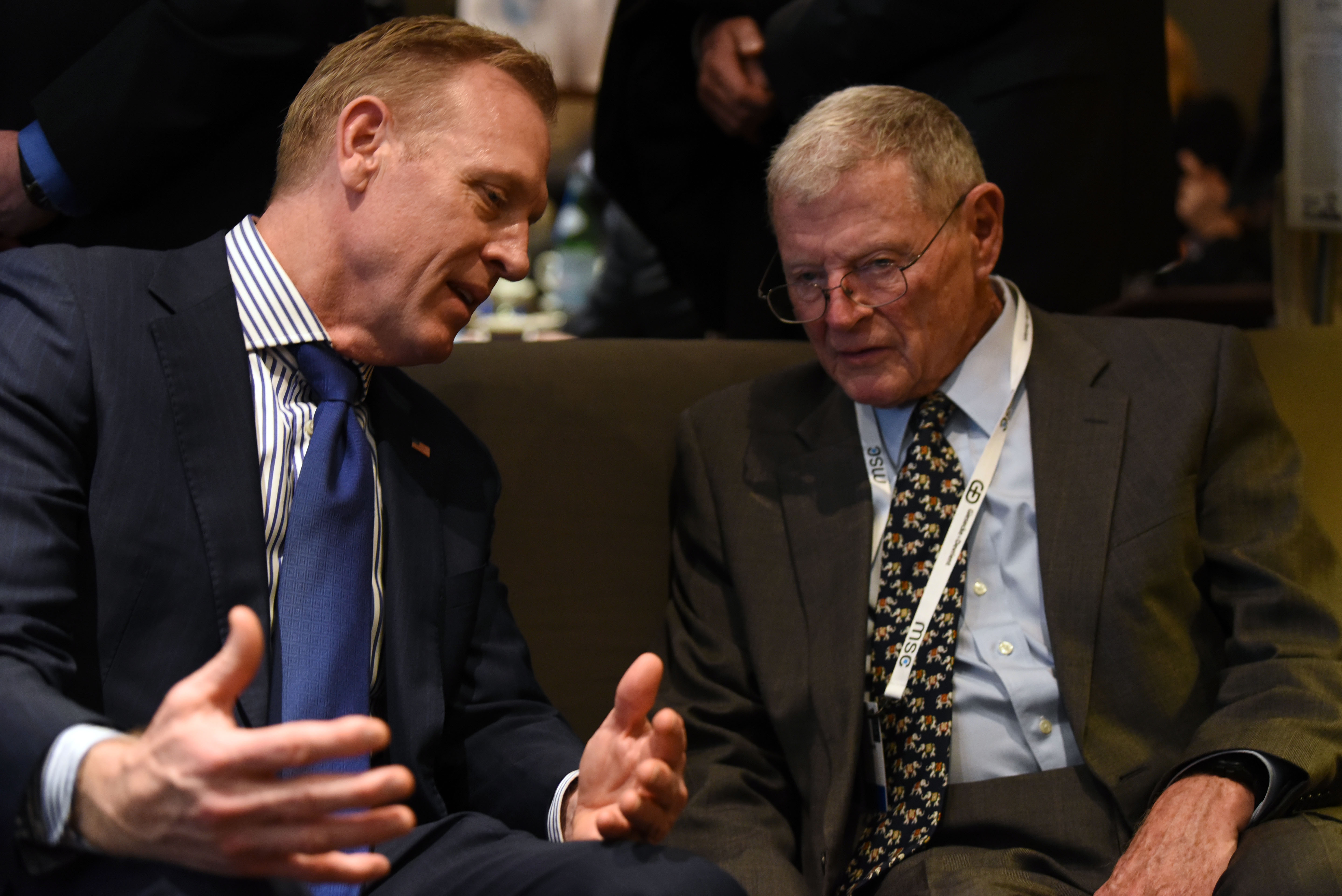 U.S. Acting Secretary of Defense Patrick M. Shanahan meets with U.S. Senator James M. Inhofe at the Munich Security Conference, Munich, Germany, Feb. 16, 2019. (DoD photo by Lisa Ferdinando)